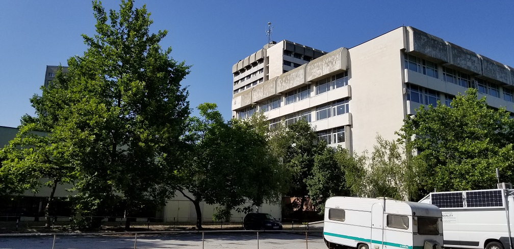 Technical University of Sofia - Branch Plovdiv